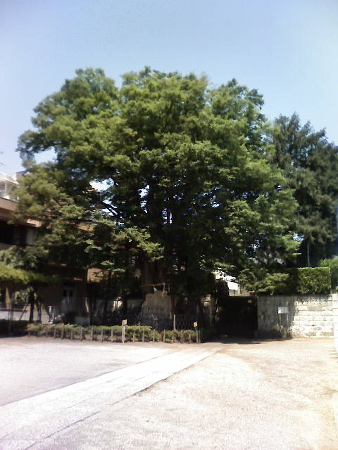 Big Zelkova serrata is located in Nerima city, Tokyo, Japan.